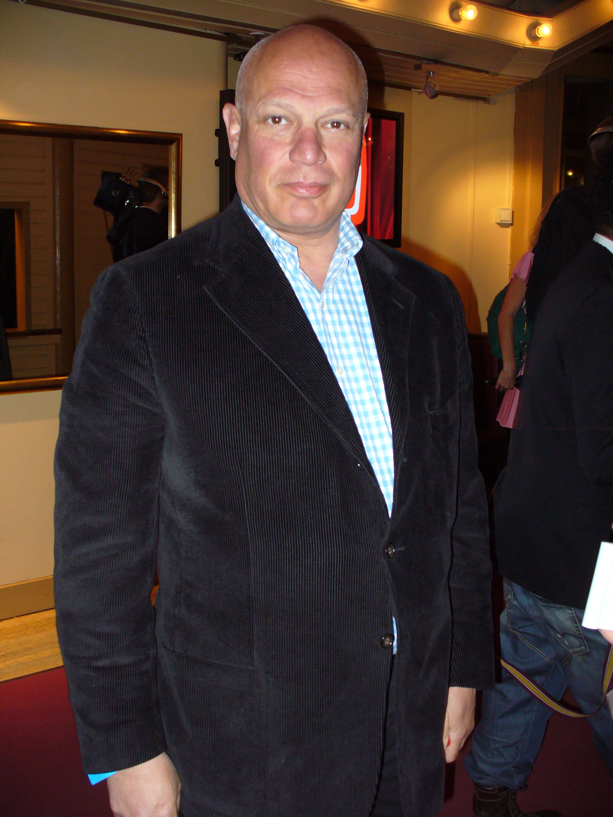 Robert Aschberg at the Aftonbladet TV Awards, 2007